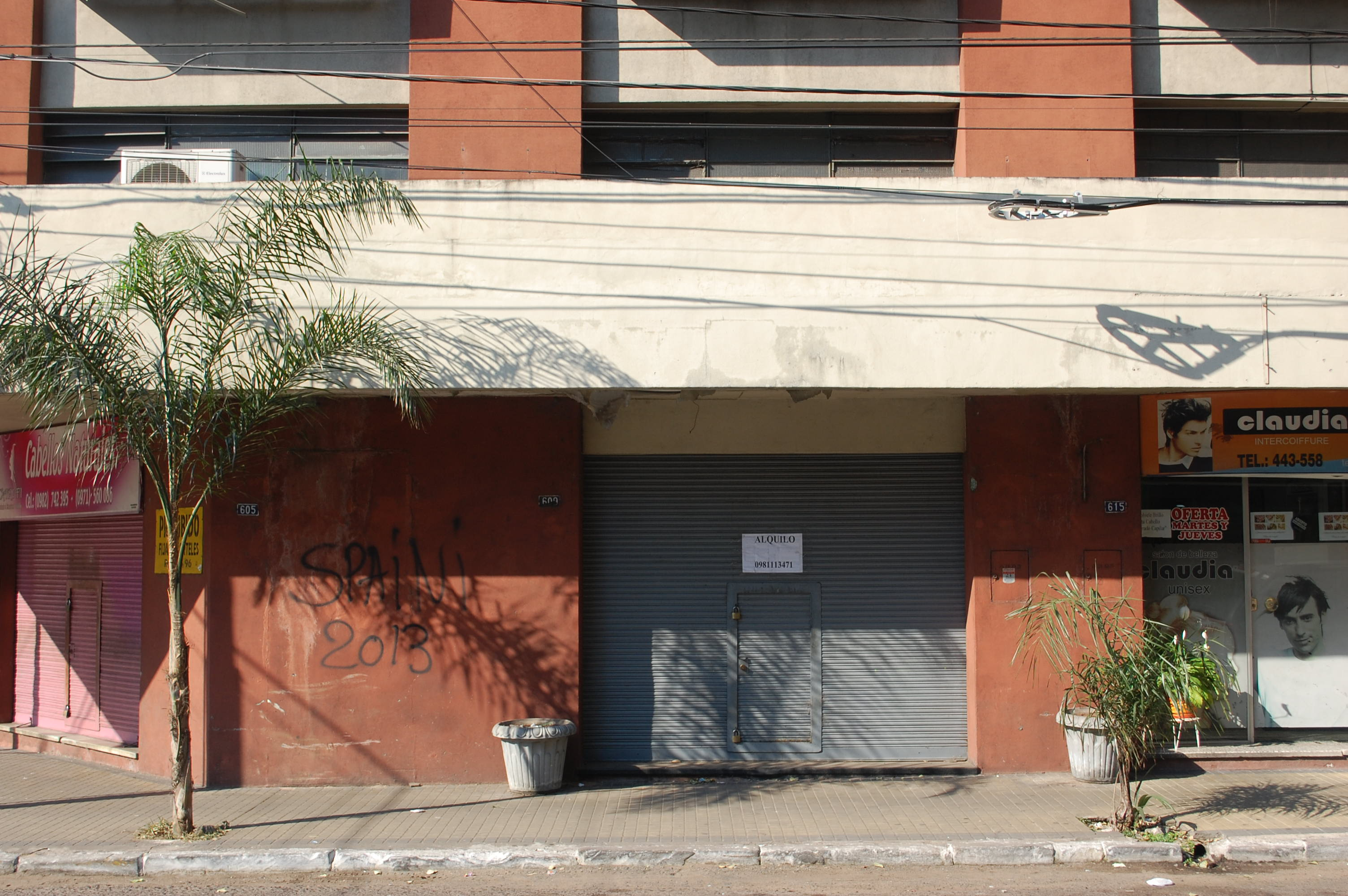 Catedral, Asuncion, Paraguay